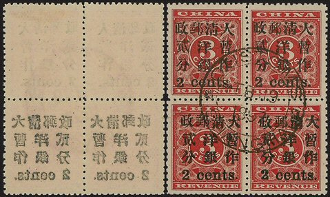 red 18